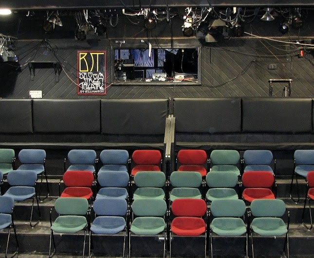 The Interior of Broom Street Theater, 1119 Williamson St. Madison, WI